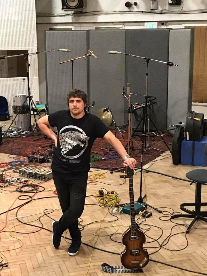 Fernando Blanco in Abbey Road Studio 2